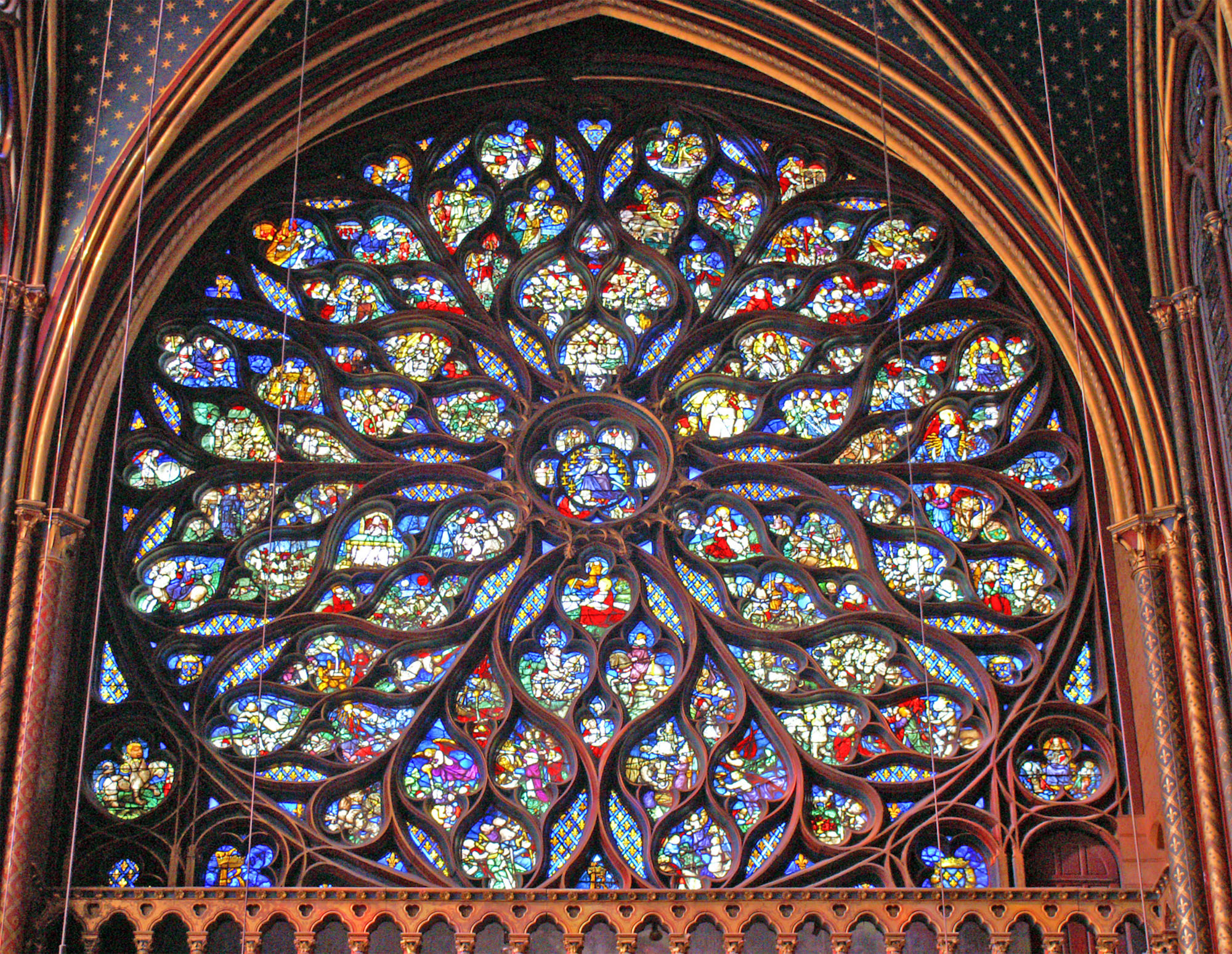 Rose window - Upper Chapel - Sainte Chapelle , Paris, France